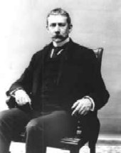 Elihu Root (February 15, 1845 – February 7, 1937)